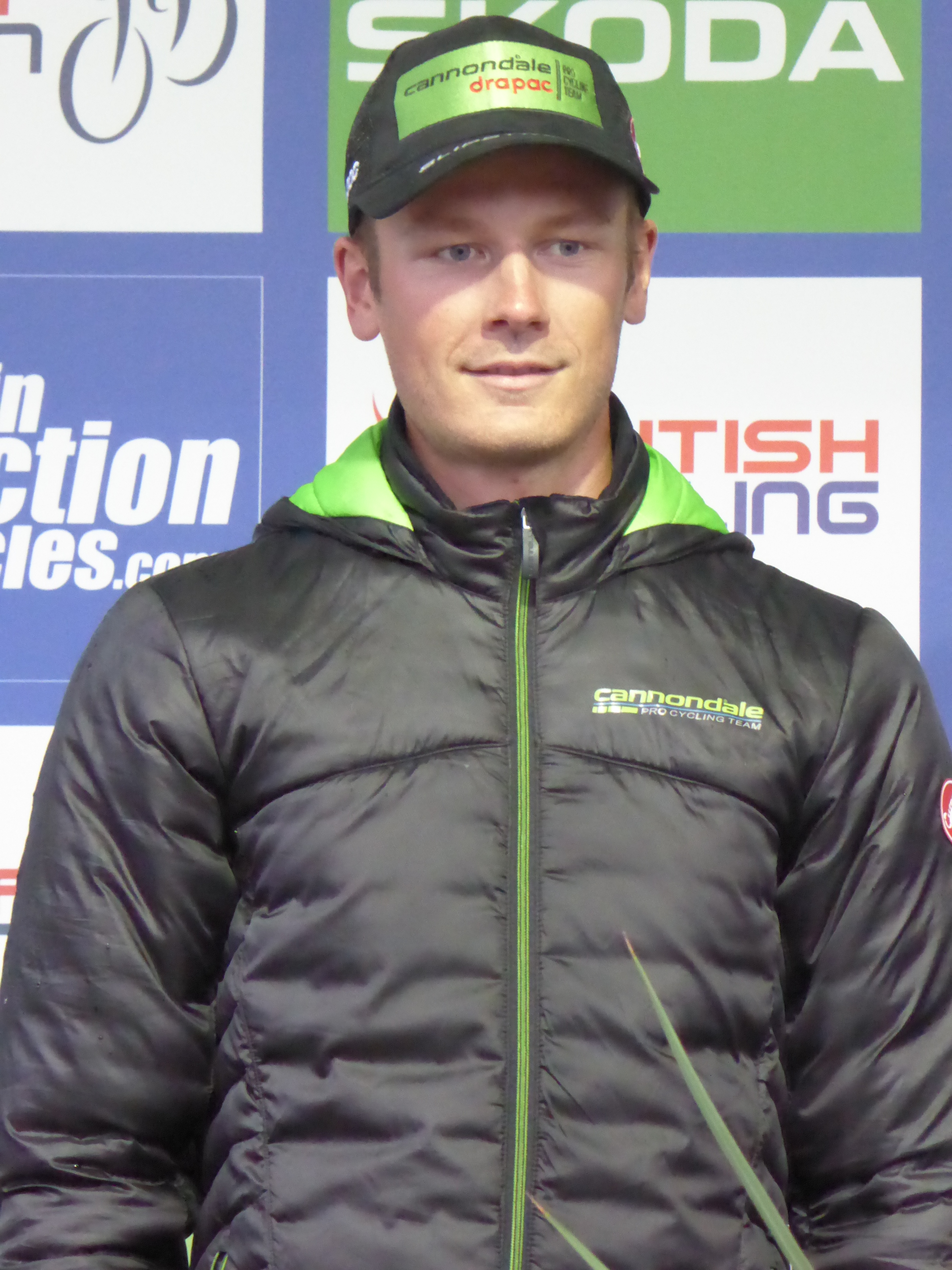 Dylan van Baarle (Cannondale-Drapac), pictured at the 2016 Tour of Britain team presentation in Glasgow on 3 September 2016.